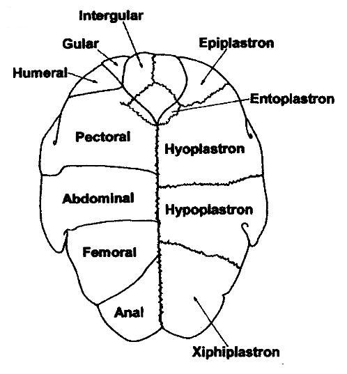 Plastron of Pseudemydura umbrina (Chelidae)